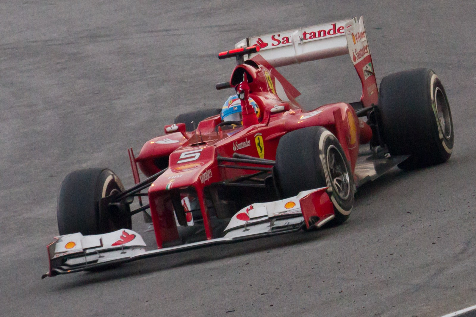 Formula One 2012 Rd.2 Malaysian GP: Fernando Alonso (Ferrari) during the victory lap.